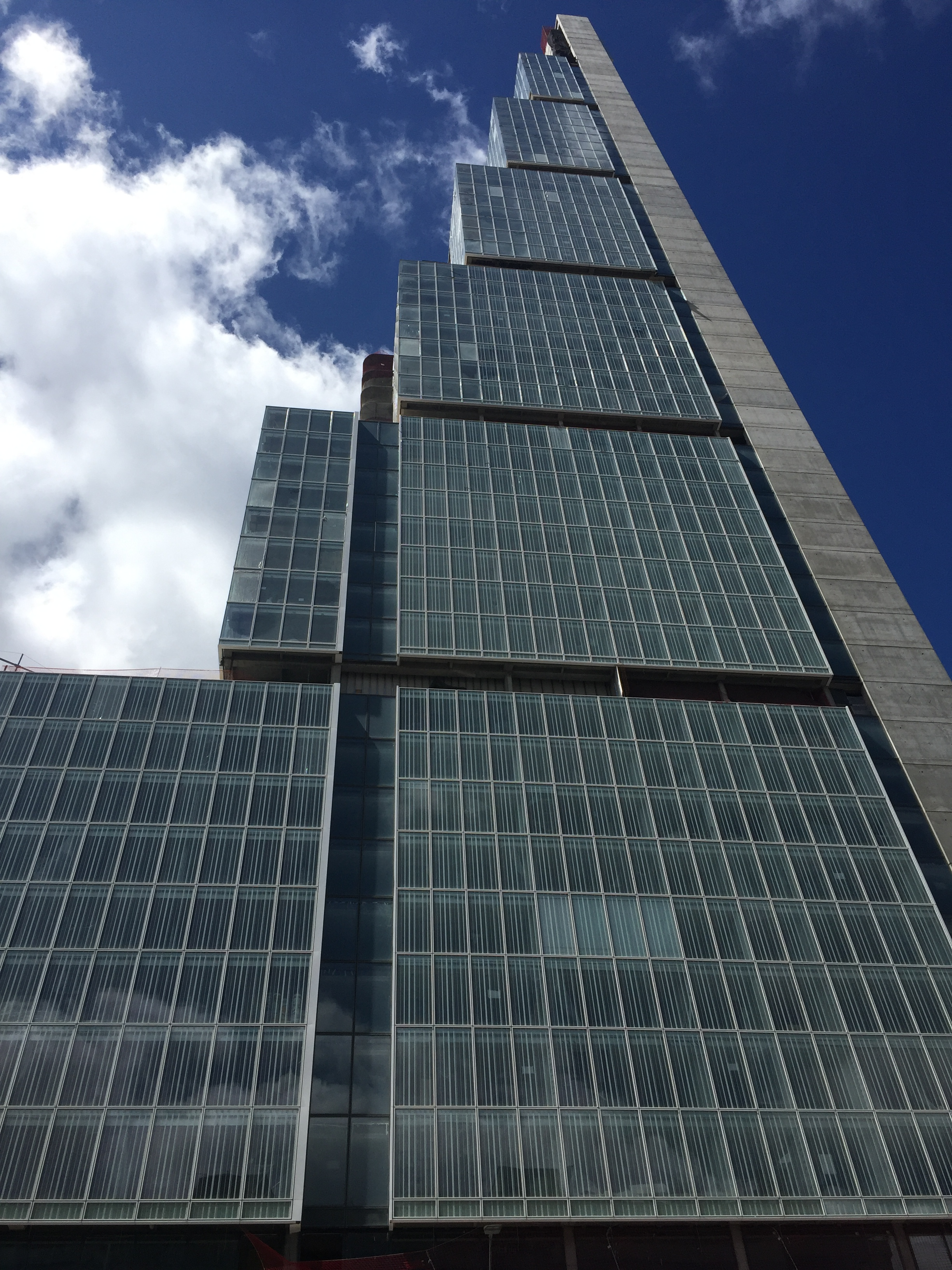 Torre Bacatá Sur